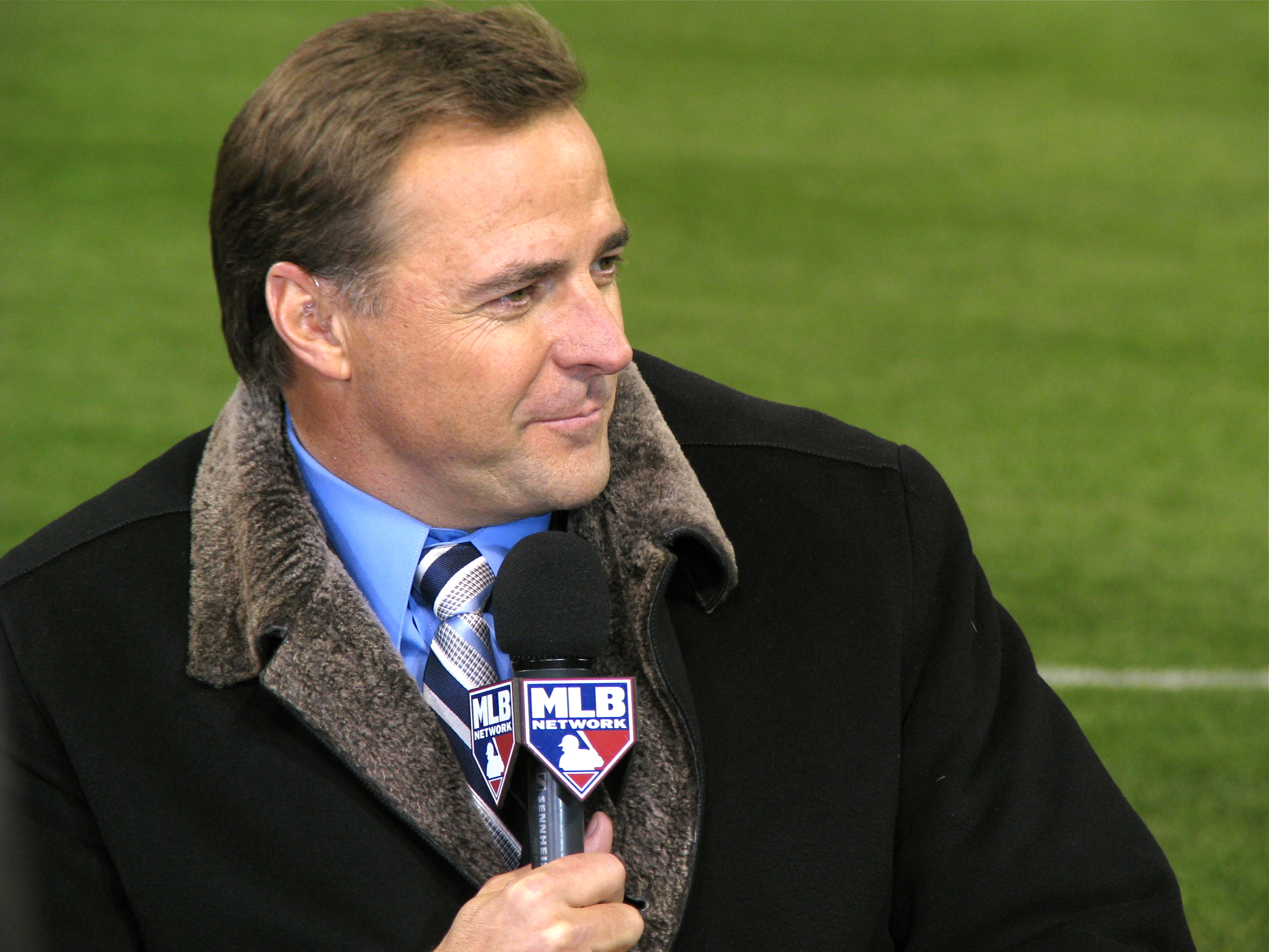 Al Leiter of the MLB Network at the 2009 World Series. Photo courtesy of andrewwinn, via Flickr.